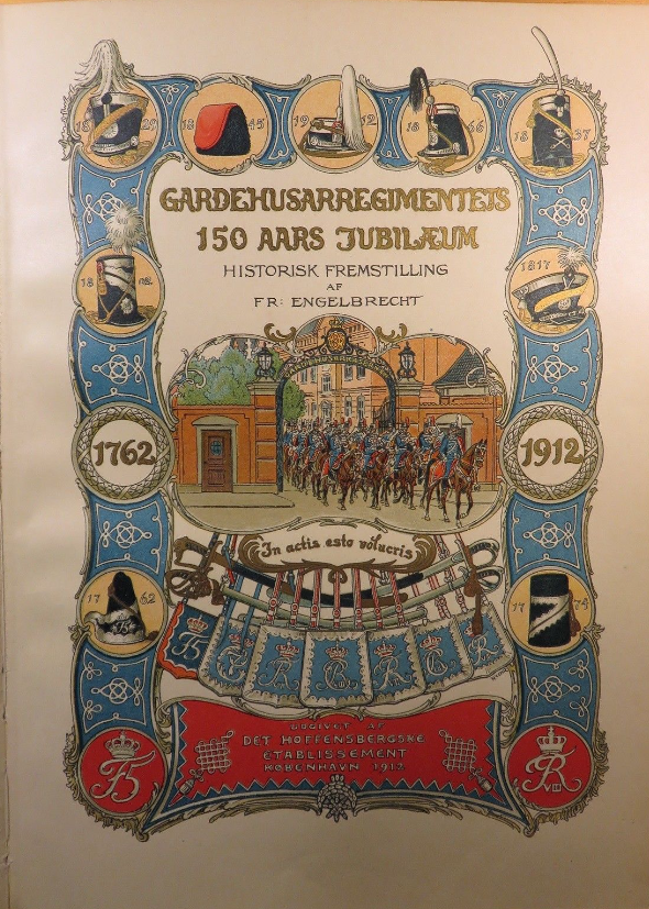 Gardehusarregimentets 150-Aars Jubilæum (suite of 12 w/title) , 1912